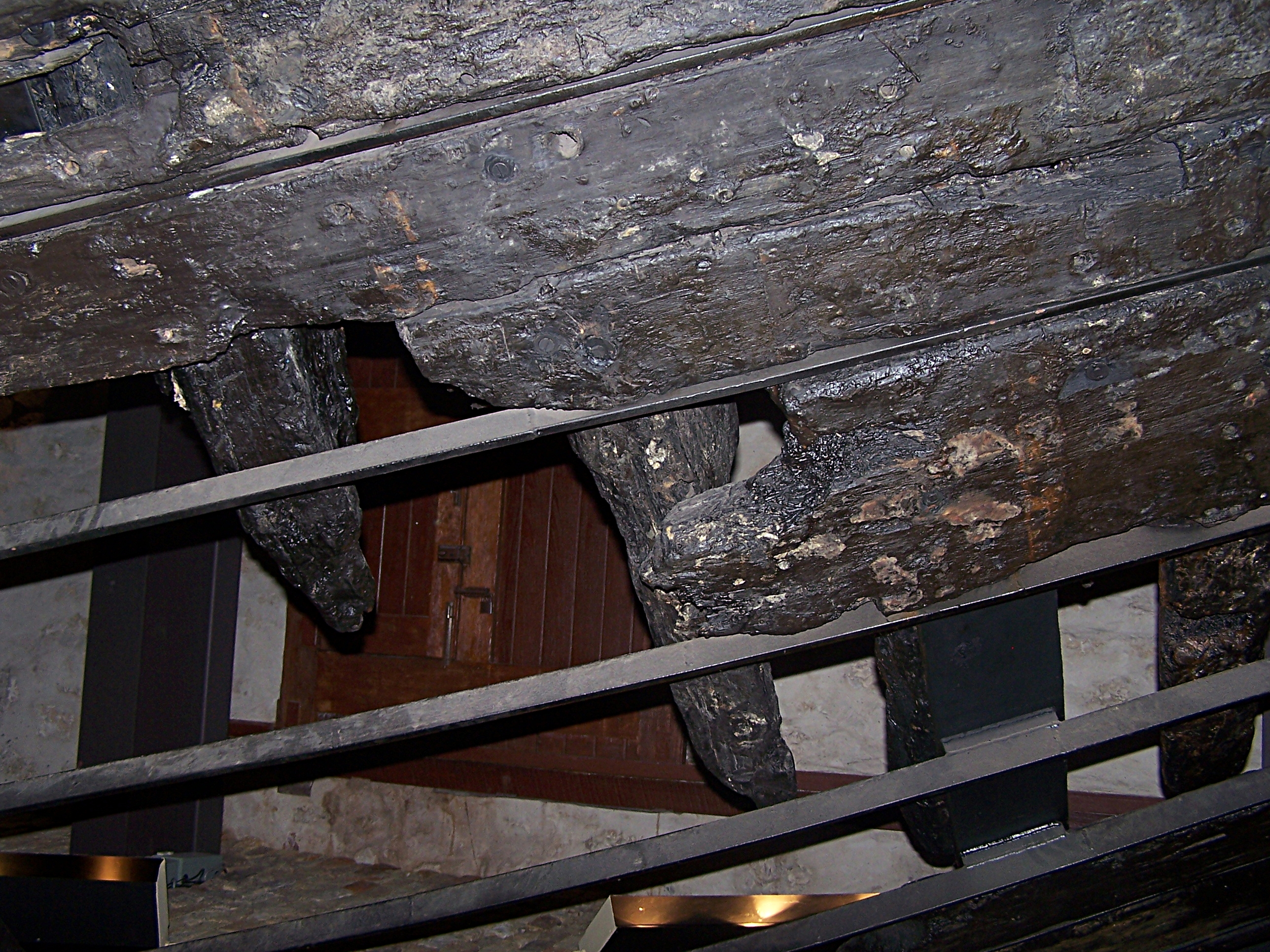 Batavia - wreck recovered section in the Shipwreck Galleries West Australian Maritime Museum Fremantle WA